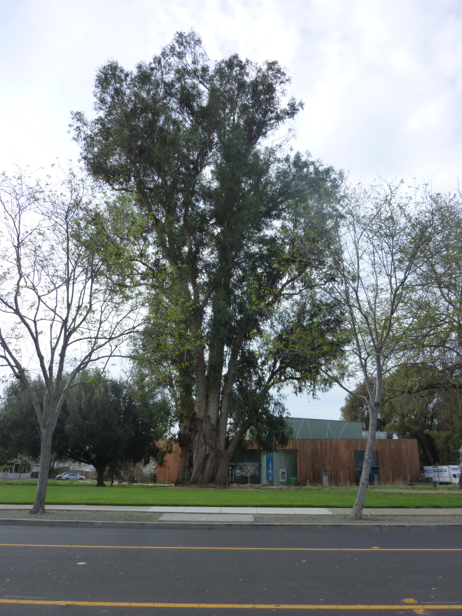 Large blue gum eucalyptus in Pleasanton, CA. 153 feet in height and 35 feet in circumference.